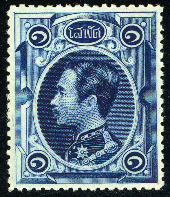 1883 Chulalongkong Ist First stamp of Siam 1 lot